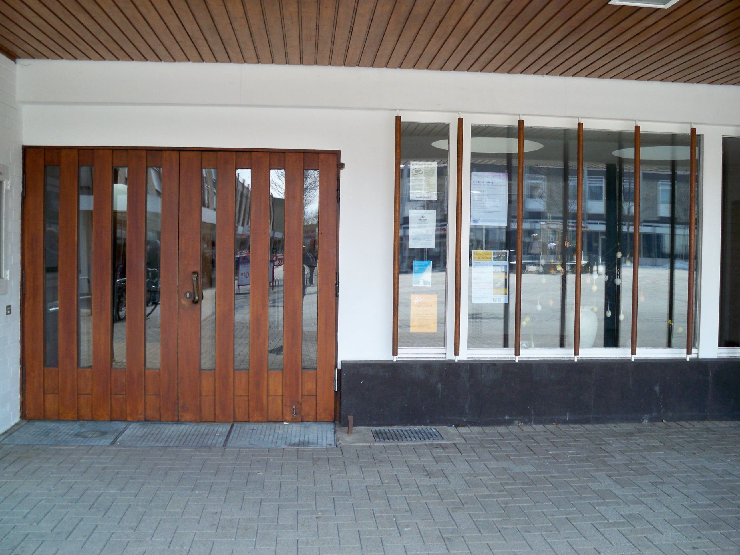 Wolfsburg, Lower Saxony, Entrance to St. Stephanus parish's house